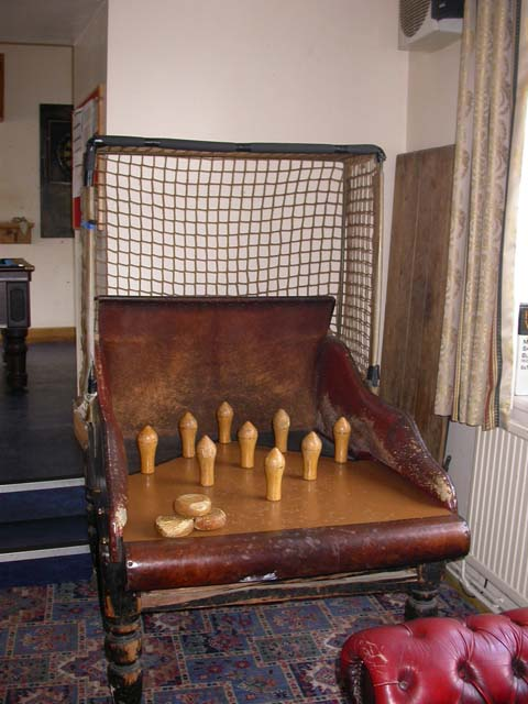 Northamptonshire Skittles A traditional and, in this case, much battered pub game in The George in Oundle.